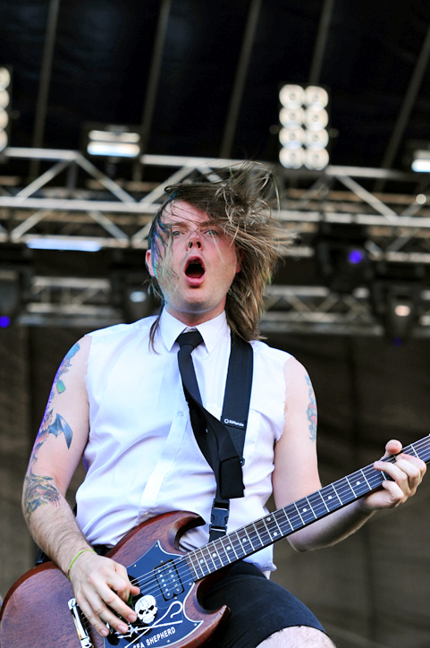 Lindsay McDougall of Australian band Frenzal Rhomb, performing on the No Sleep Til Festival 2010 tour at Arena Joondalup on 12 December 2010.